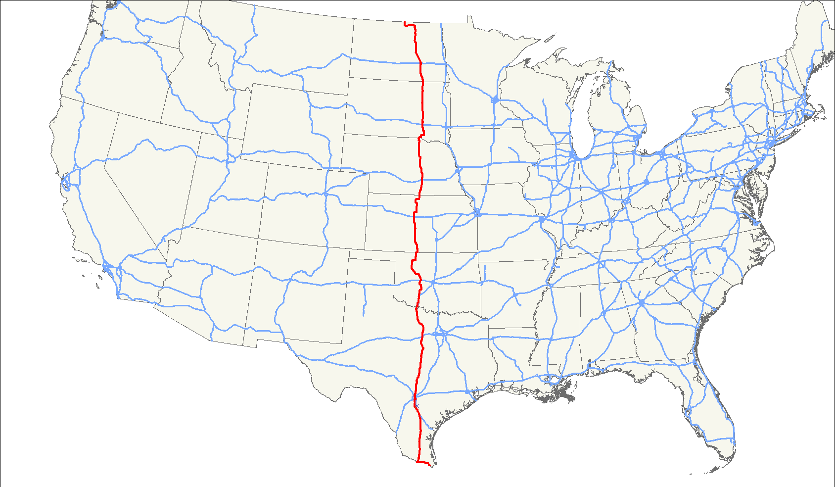 Route of U.S. Route 281